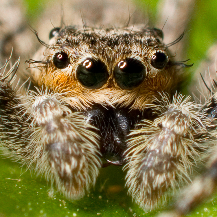 Platycryptus undatus jumping spider in Nashville, Tennessee. Body length: 7 mm.